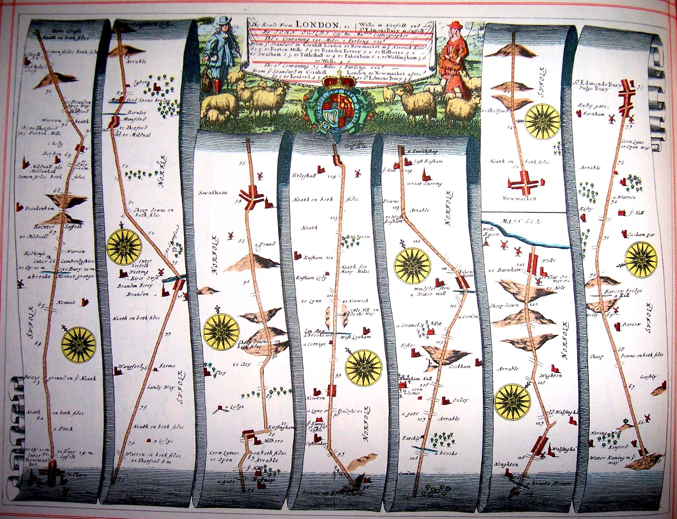 A 1675 strip map by John Ogilby showing the route from Newmarket in Suffolk to Wells-next-the-Sea in Norfolk and Bury St. Edmunds in Suffolk.